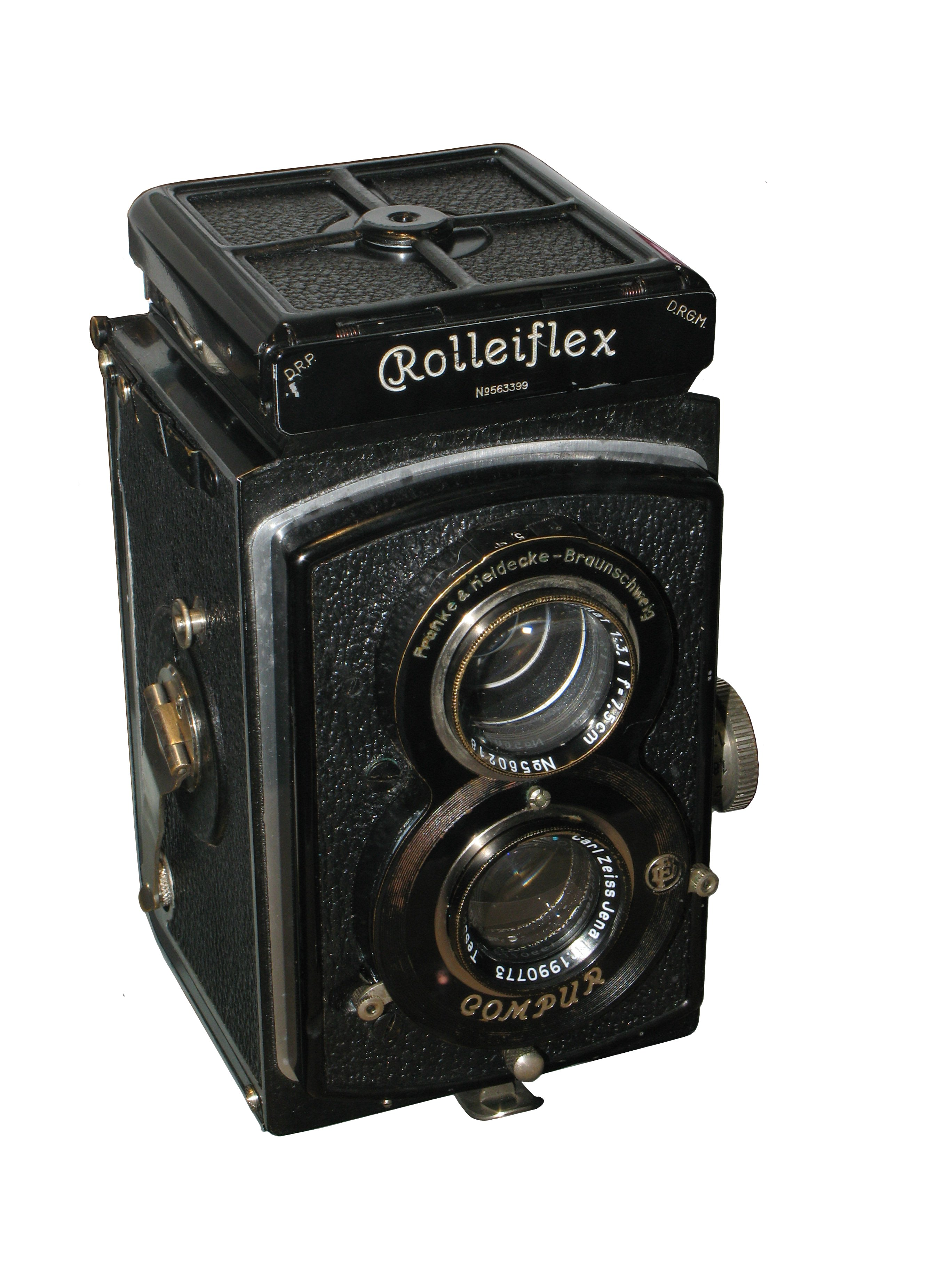 Rolleiflex